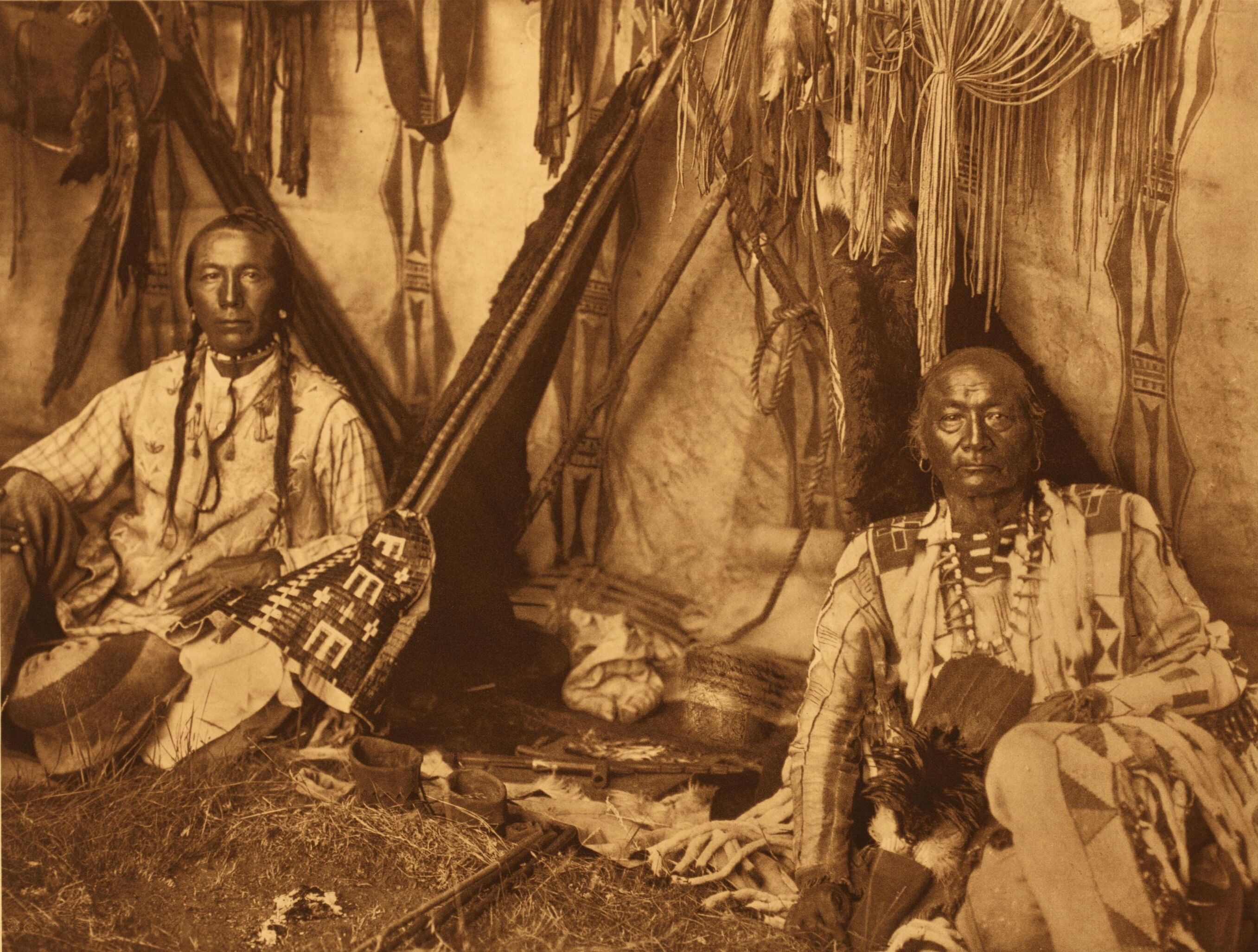 "Little Plume with his son Yellow Kidney occupies the position of honor, the space at the rear opposite the entrance. The picture is full of suggestion of the various Indian activities. In a prominent place lie the ever-present pipe and its accessories on the tobacco cutting-board. From the lodge-poles hang the buffalo-skin shield, the long medicine-bundle, an eagle-wing fan, and deerskin articles for accoutering the horse. The upper end of the rope is attached to the intersection of the lodge-poles, and in stormy weather the lower end is made fast to a stake near the centre of the floor space." 1 photogravure: brown ink; 36 x 44 cm. Original photogravure produced in Boston by John Andrew & Son, c1910. Original source: The Piegan. The Cheyenne. The Arapaho [portfolio]; plate no. 188. Seattle : E.S. Curtis, 1911.